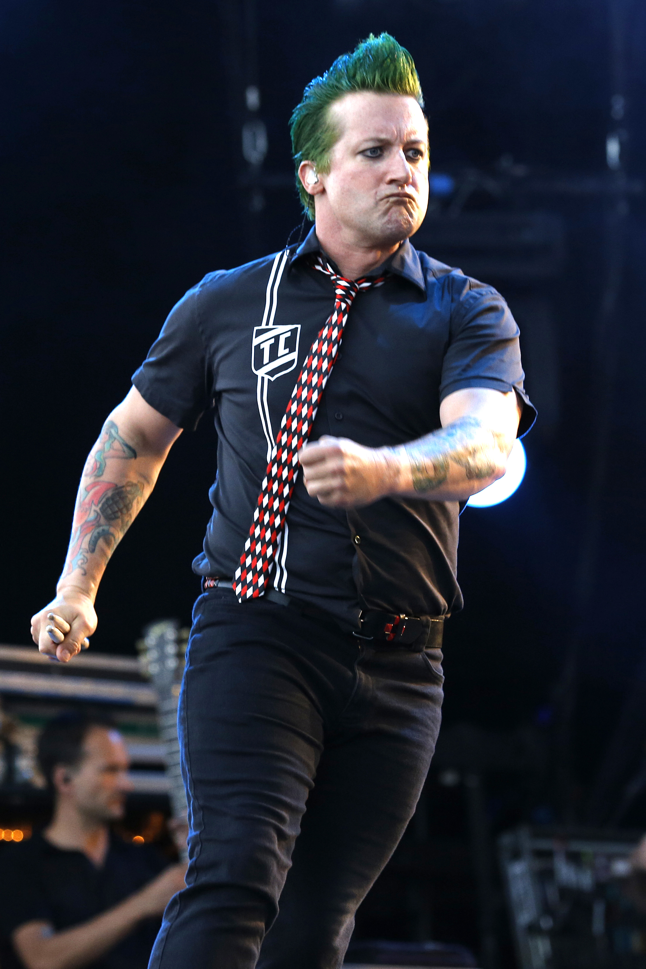 Tré Cool, drummer of Green Day, stands on the Center Stage of Rock im Park-Festival 2013.